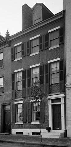 Thomas Sully House, 530 Spruce Street, Philadelphia (Philadelphia County, Pennsylvania) (cropped)